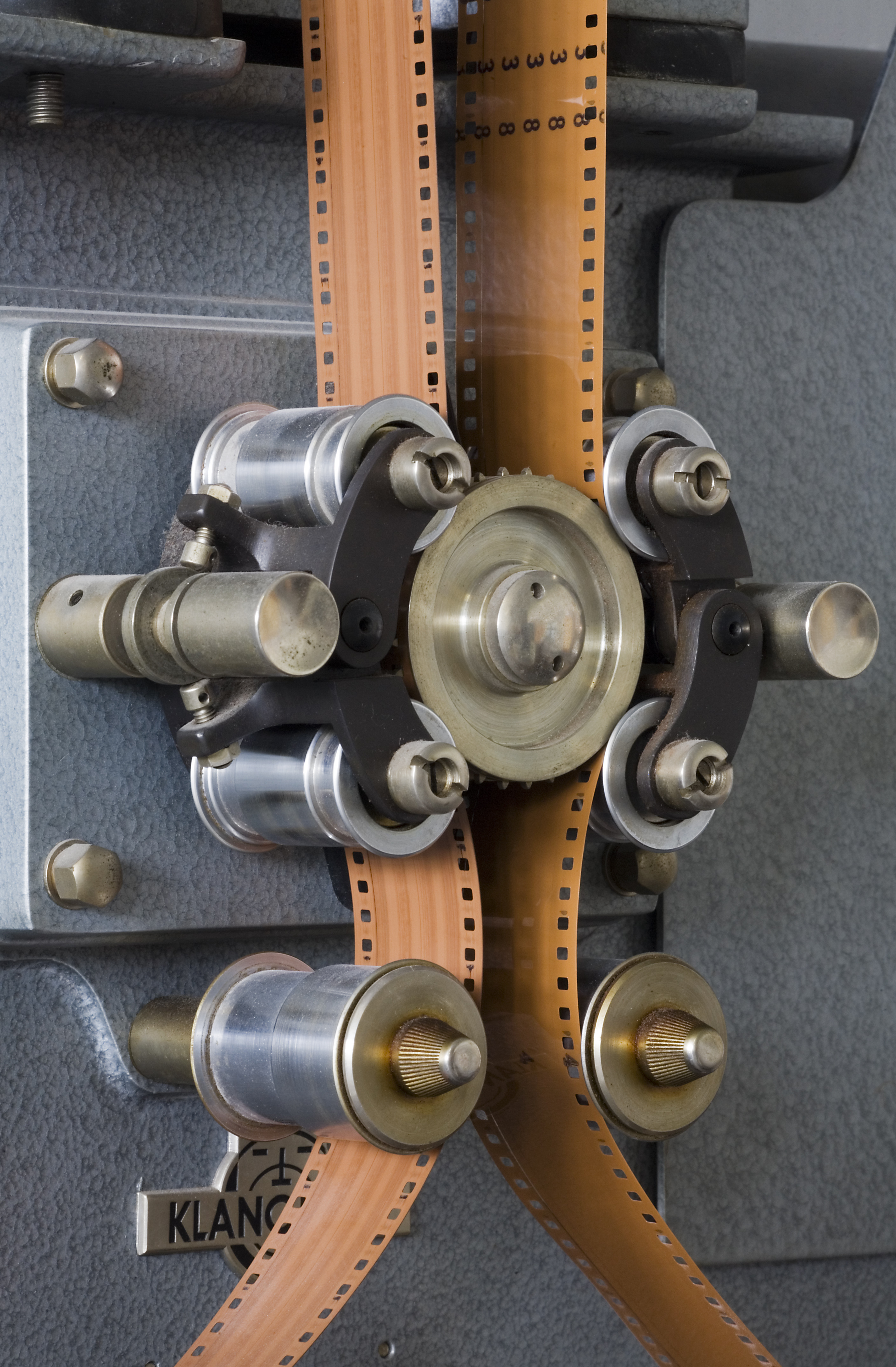 Details of a Siemens electronic music recording studio 1955